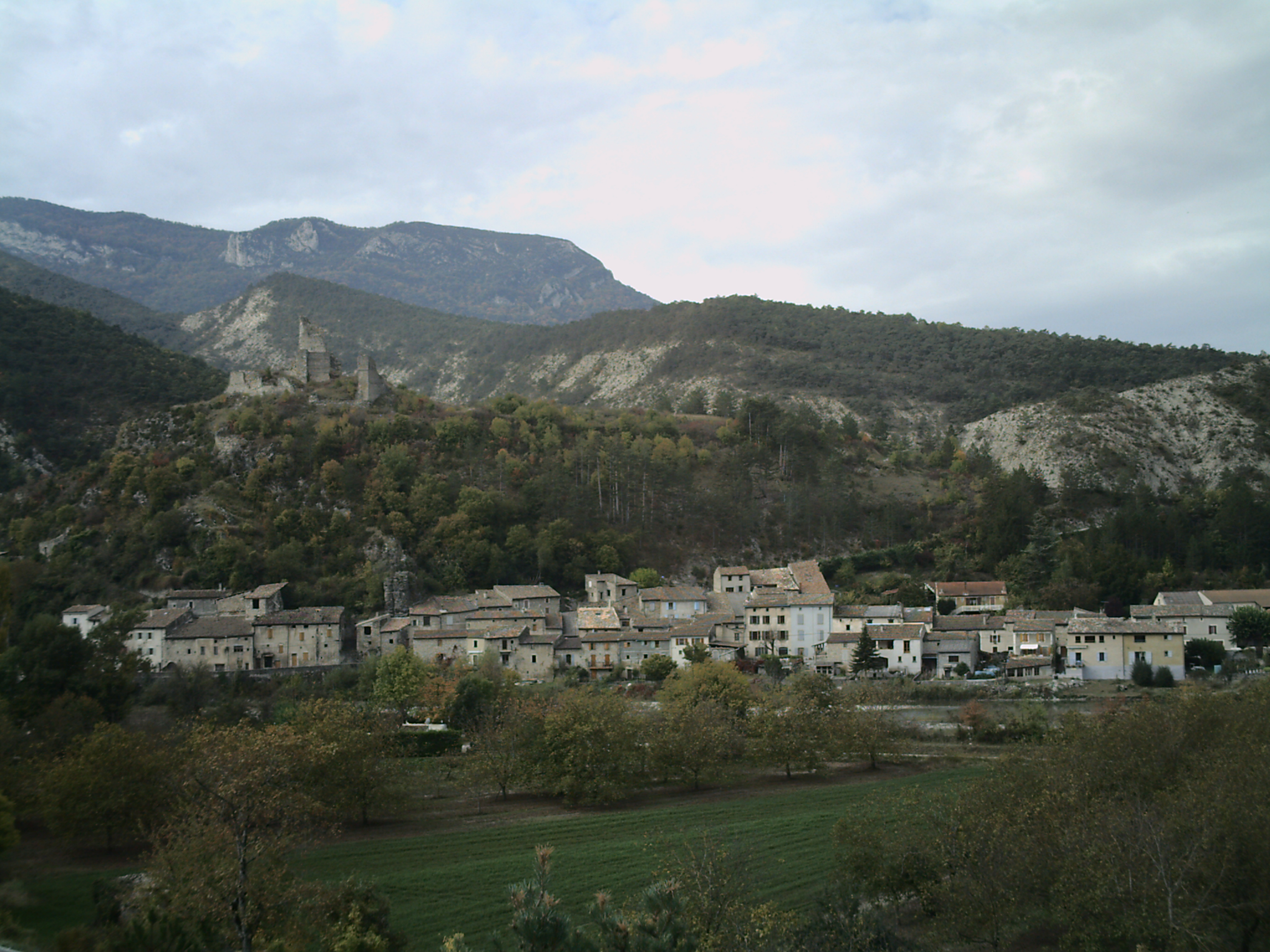 Town of Pontaix, Drôme, France